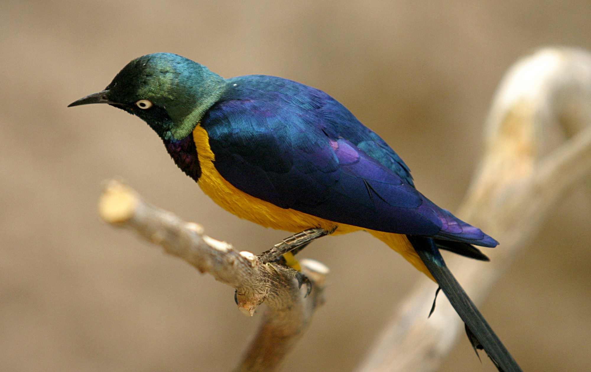 A Golden Breasted Starling at the Milwaukee County Zoological Gardens in Milwaukee, Wisconsin.